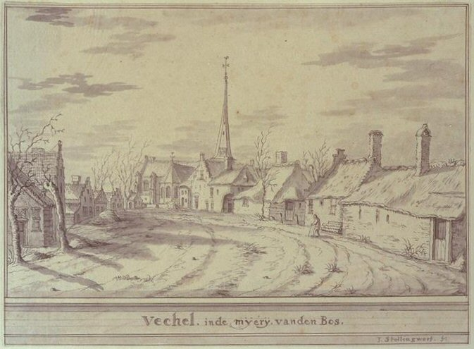 Veghel